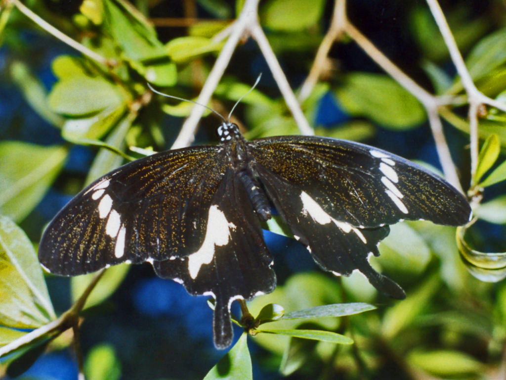 Papilio nephelus sunatus